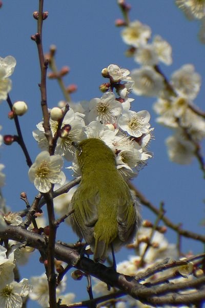 "Mejiro" (Zosterops japonicus) loves "Ume" (Prunus mume).